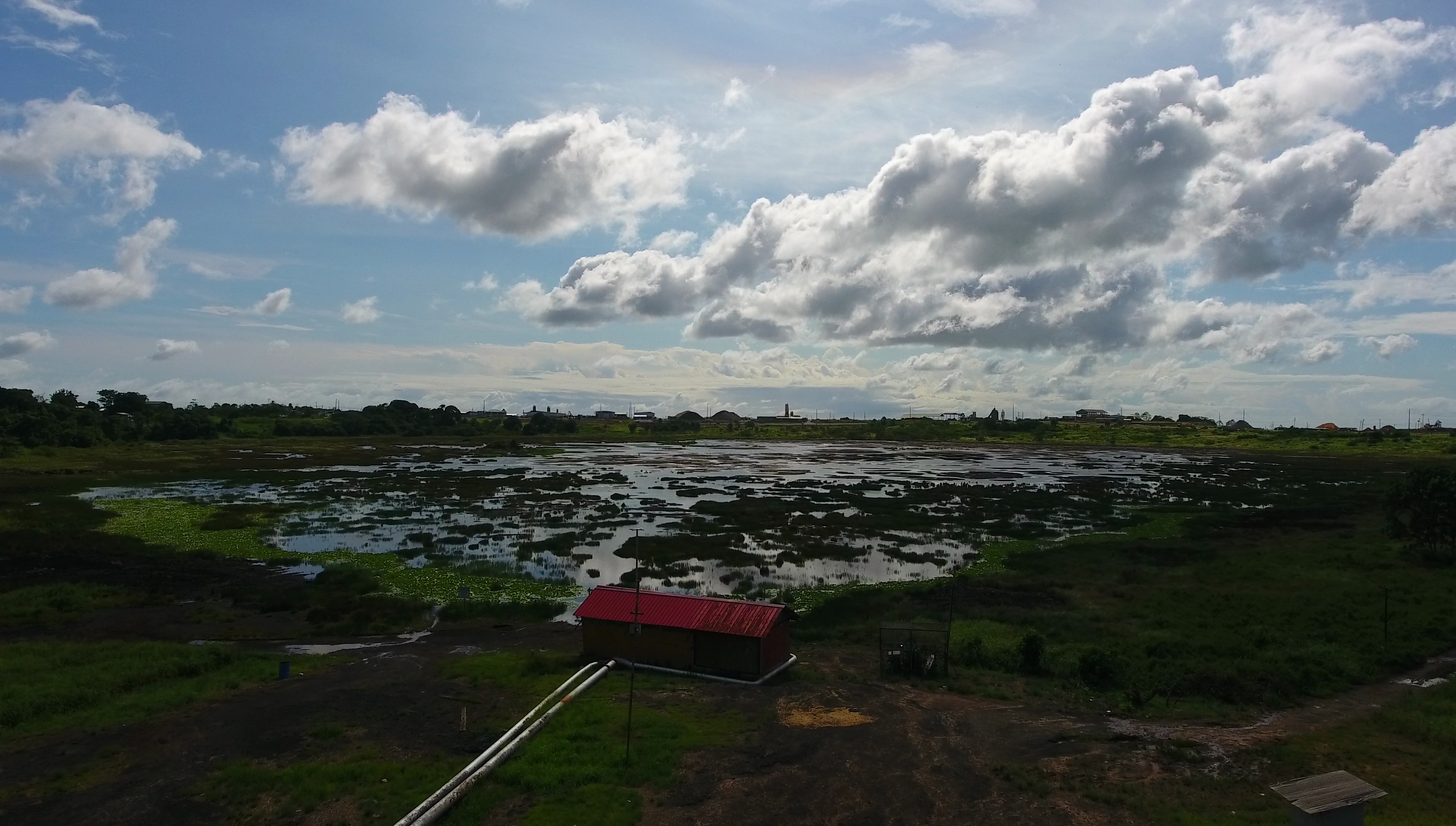 La Brea Pitch Lake, La Brea, Siparia, Trinidad and Tobago. Photo taken as part of the Southern Trinidad Aerial Photo Project, a small project sponsored by WMDE. Drone used: DJI Phantom 4. Snapshot taken from video footage via VLC.